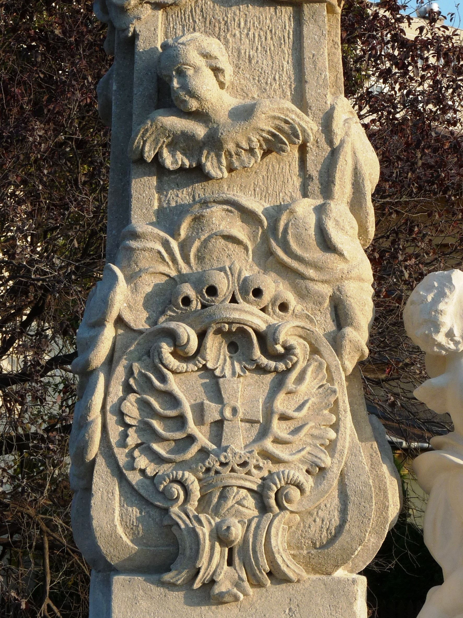 Coats of arms of Zichy family. Part of the Votive altar in Óbuda. (Budapest, District III, Flórián Square)